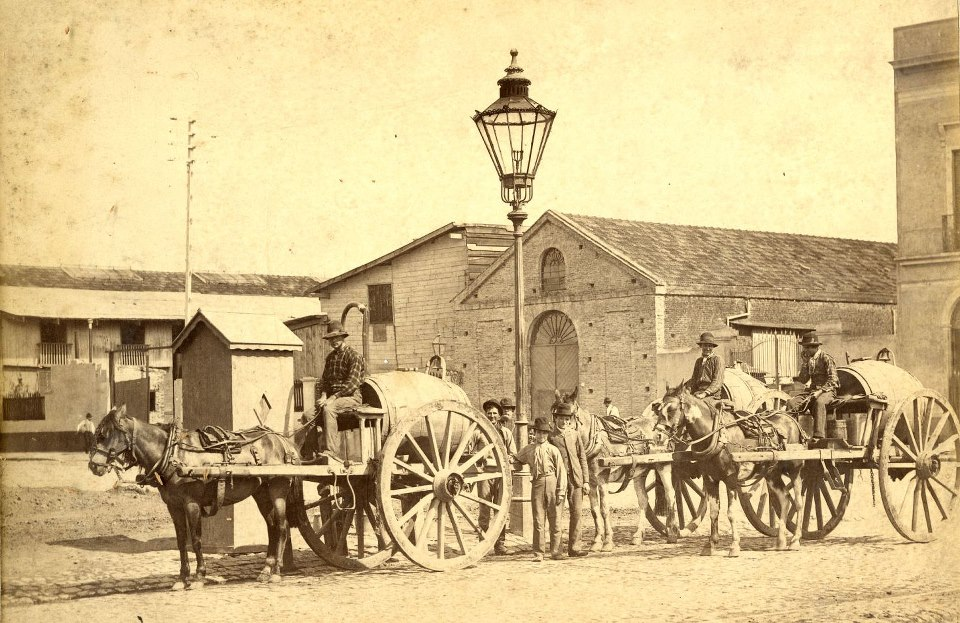 Buenos Aires. Aguateros, fines del siglo XIX.